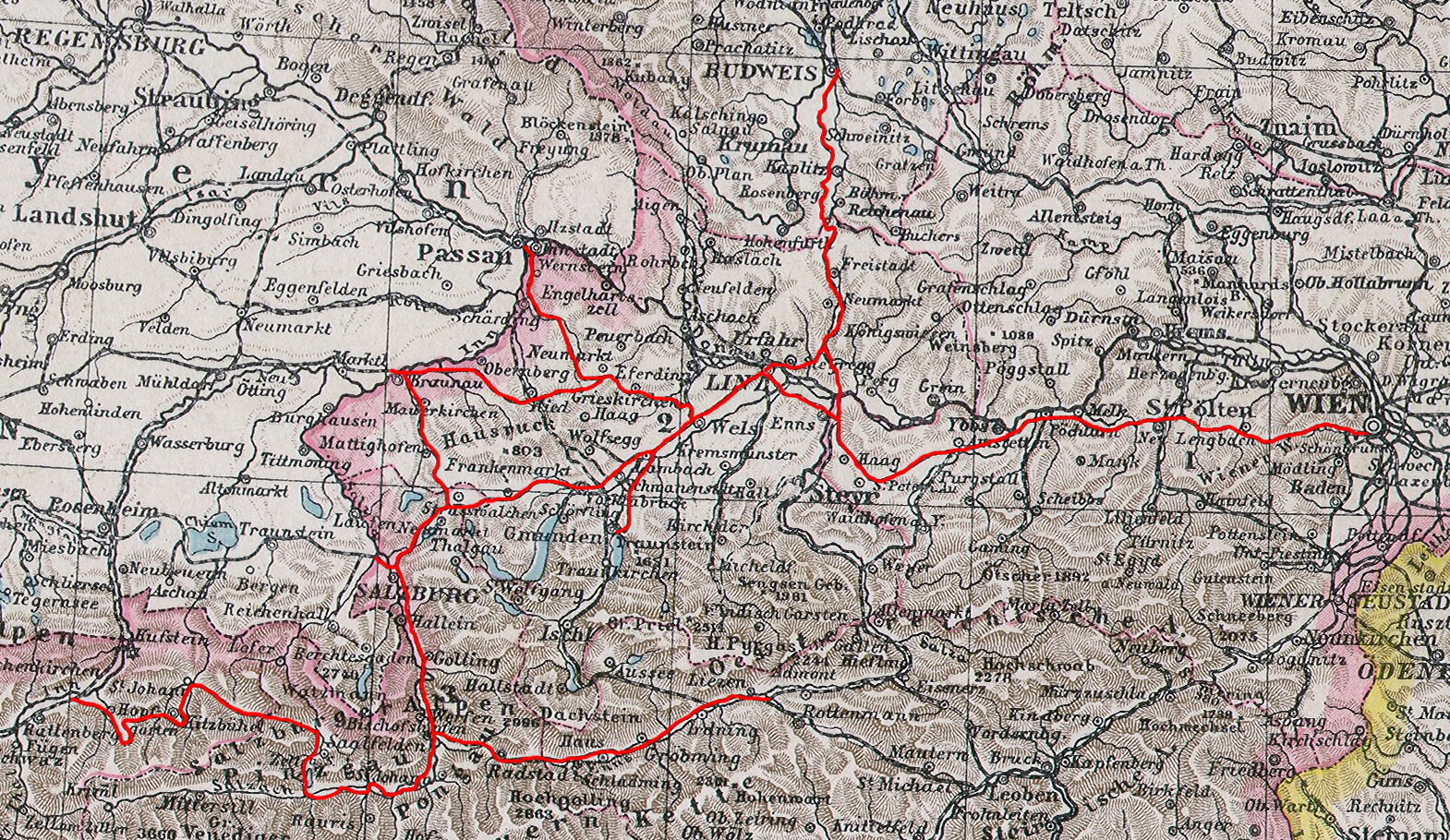 Network of rail company Kaiserin Elisabeth-Bahn